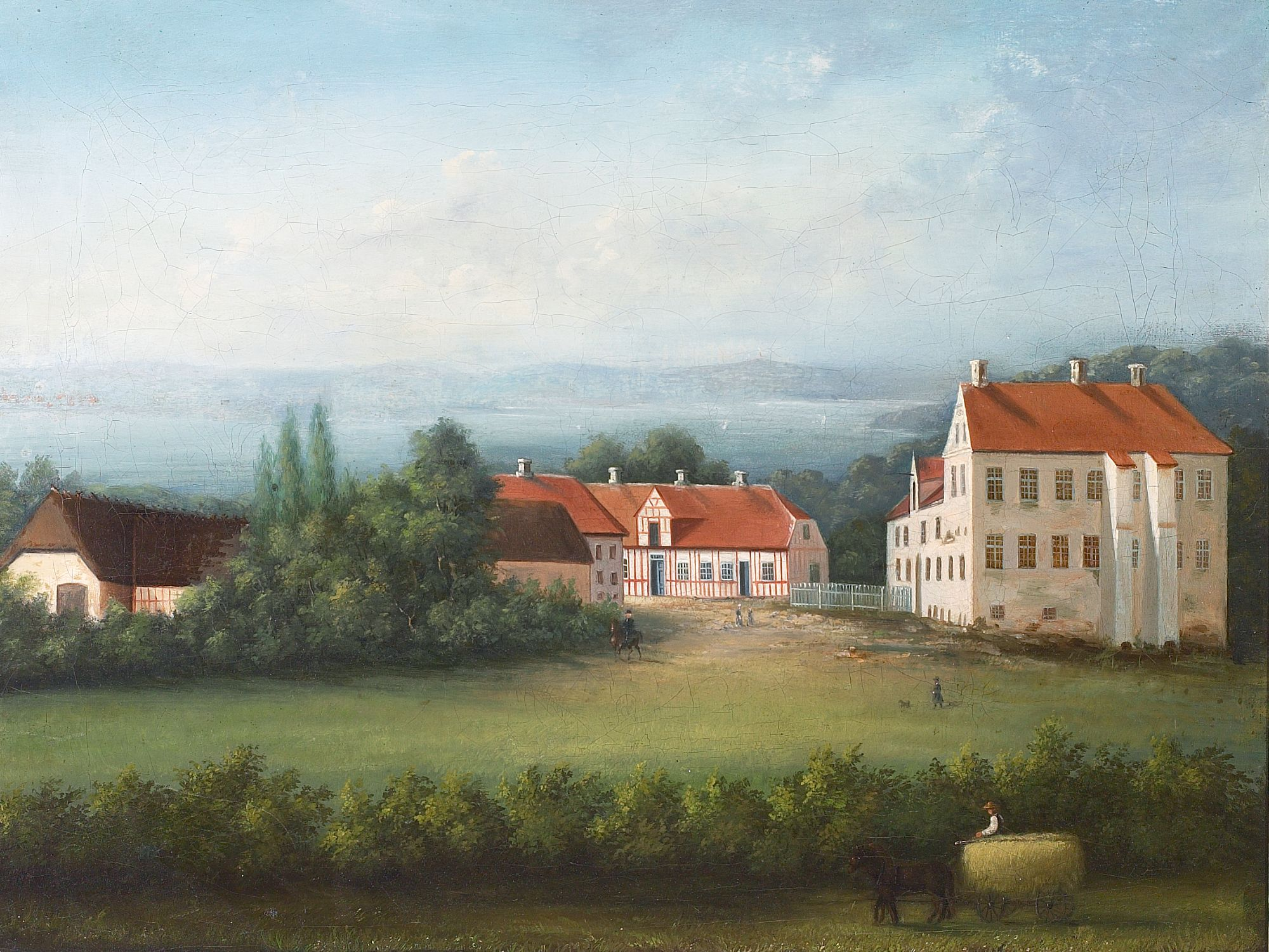 Starting in the 1840s, Richard did numerous drawings of Danish manor houses, and converted a number of them into paintings. In 1873 he emigrated to the United States. The paintings shows Barritskov as it looked until the buildings were torn down in 1913.